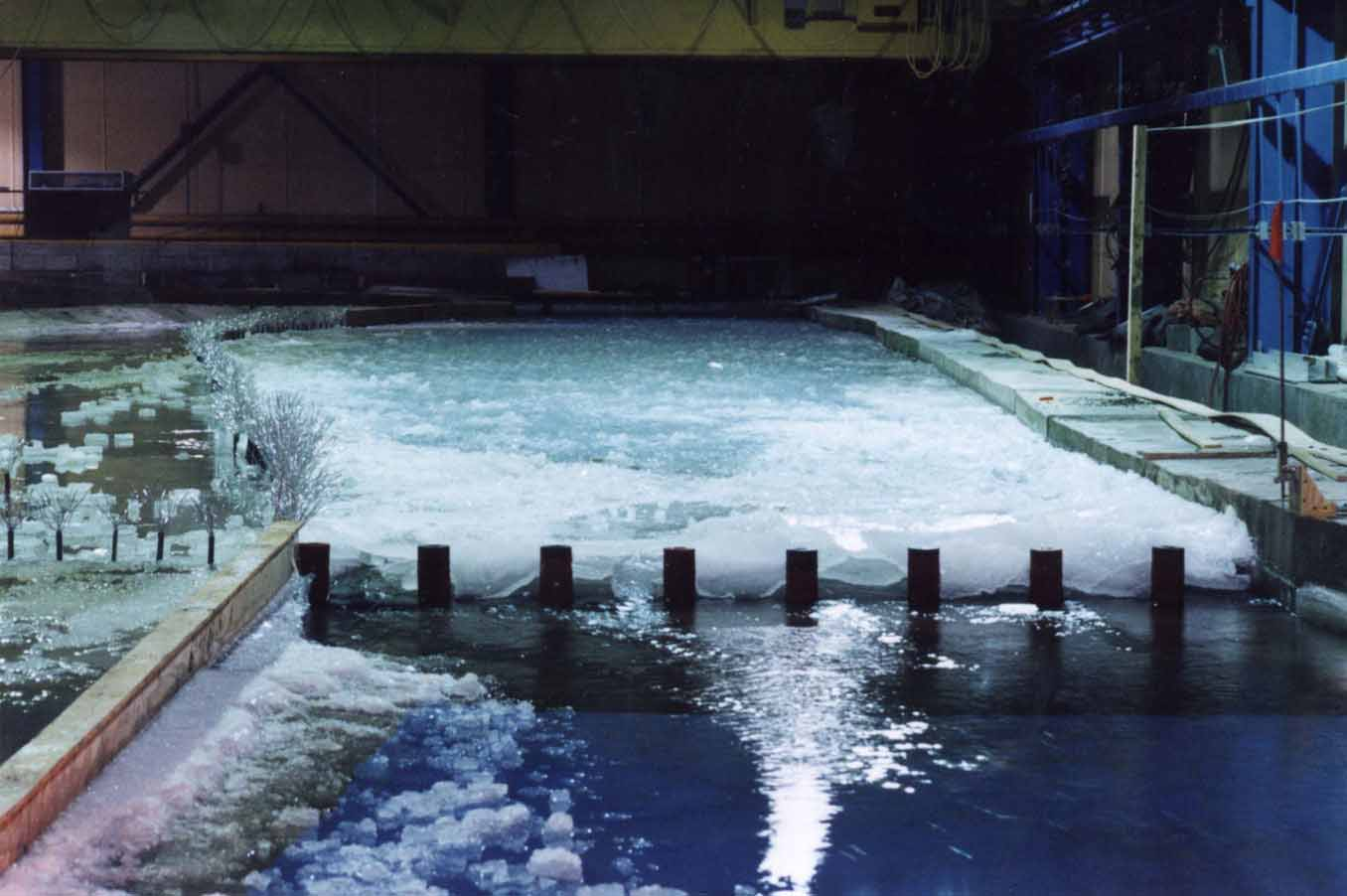 Model of a structure designed to retain river ice upstream of a historical choke point on the Cazenovia Creek, a tributary of the Buffalo River in New York State, that was the cause of ice dams during river thaws. The model validated a design that was built at the site. The model was built in the Ice Engineering Facility of the Cold Regions Research and Engineering Laboratory of the U.S. Army Corps of Engineers. Lever, James H.; Gooch, Gordon; Daly, Steven (August 2000), “Cazenovia Creek Ice-Control Structure”, in CRREL/ERDC Technical Report TR[1], volume 00, issue 14, US Army Corps of Engineers